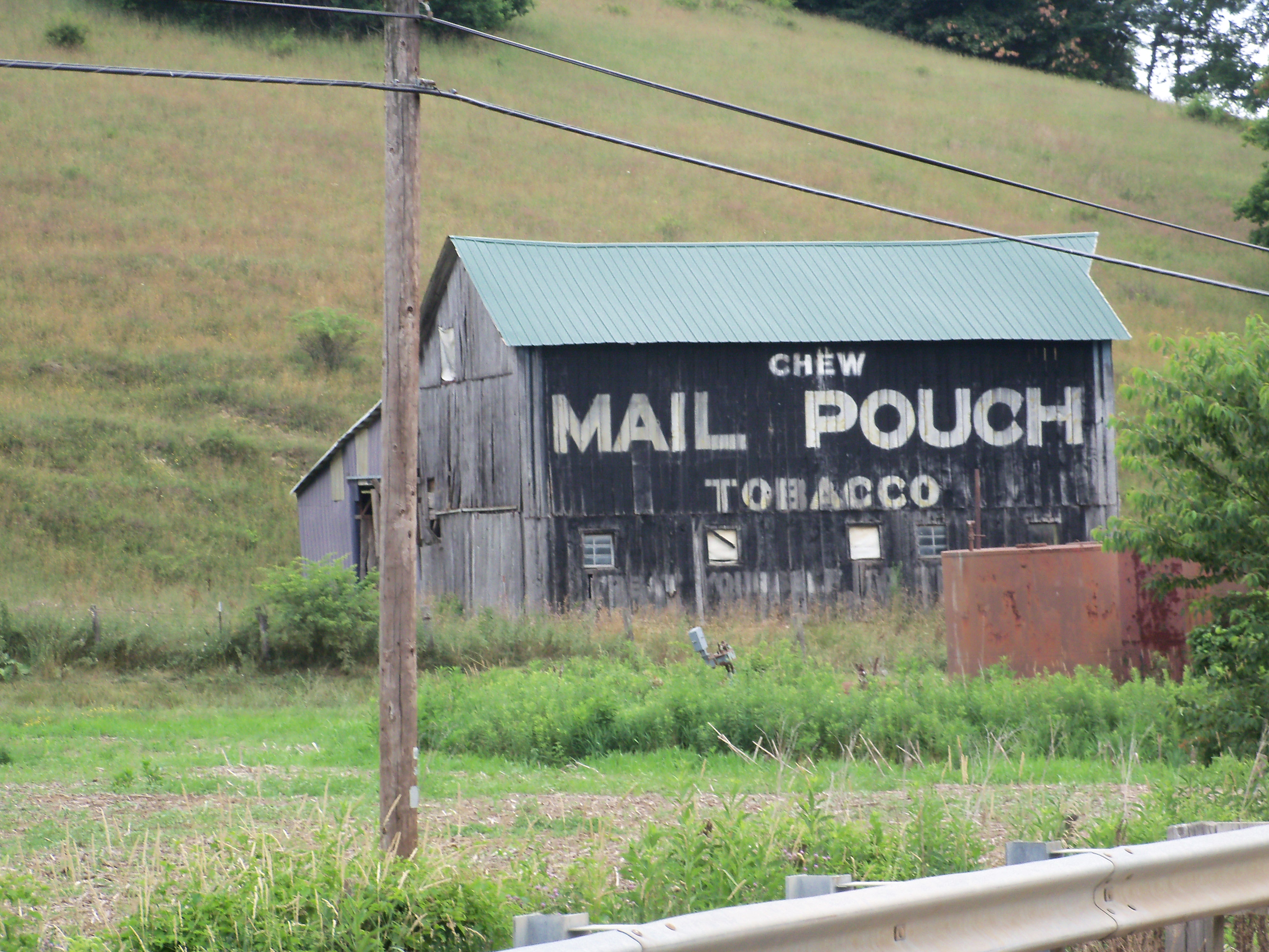 Mail Pouch Barn between Killbuck and Gann in Ohio on Route 62